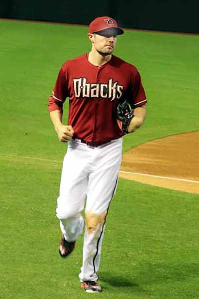 A.J. Pollack, 2015